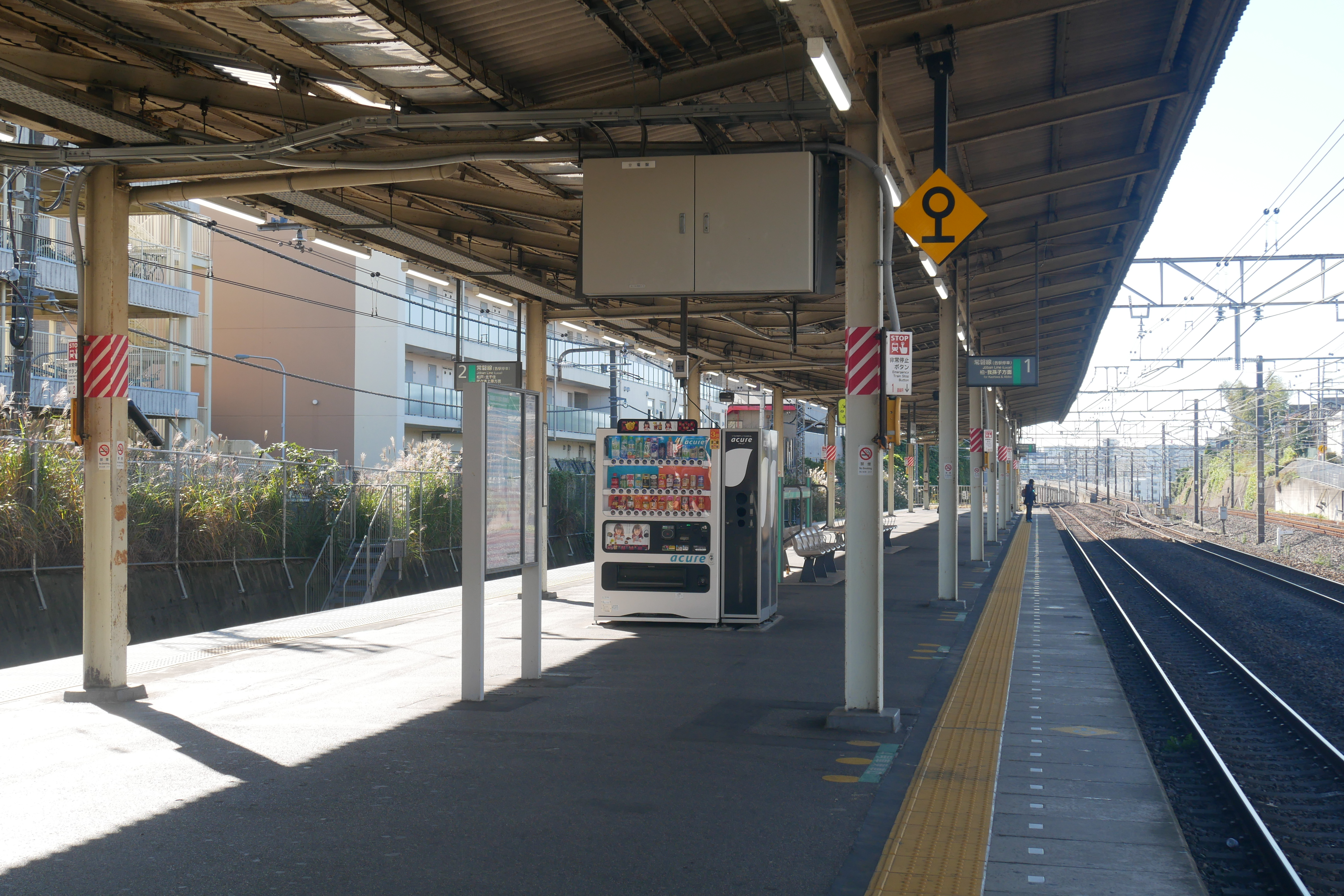 北小金駅のホーム (Kita-Kogane Station platform) Panasonic Lumix DMC-GX7 Mark II